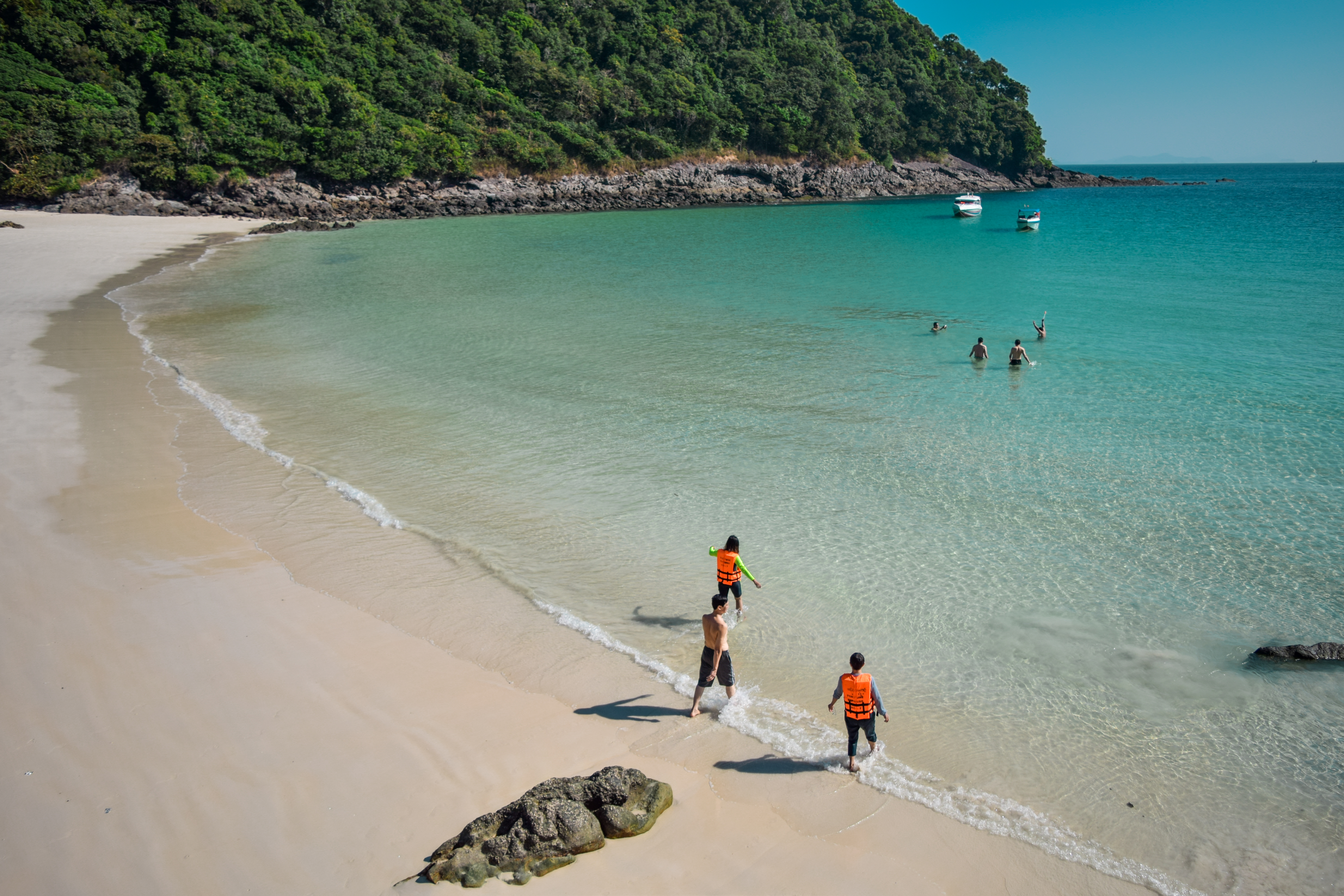 This is Smart Island which is one of the beautiful island of Mergui Archipelago. This island is near with Myeik city.